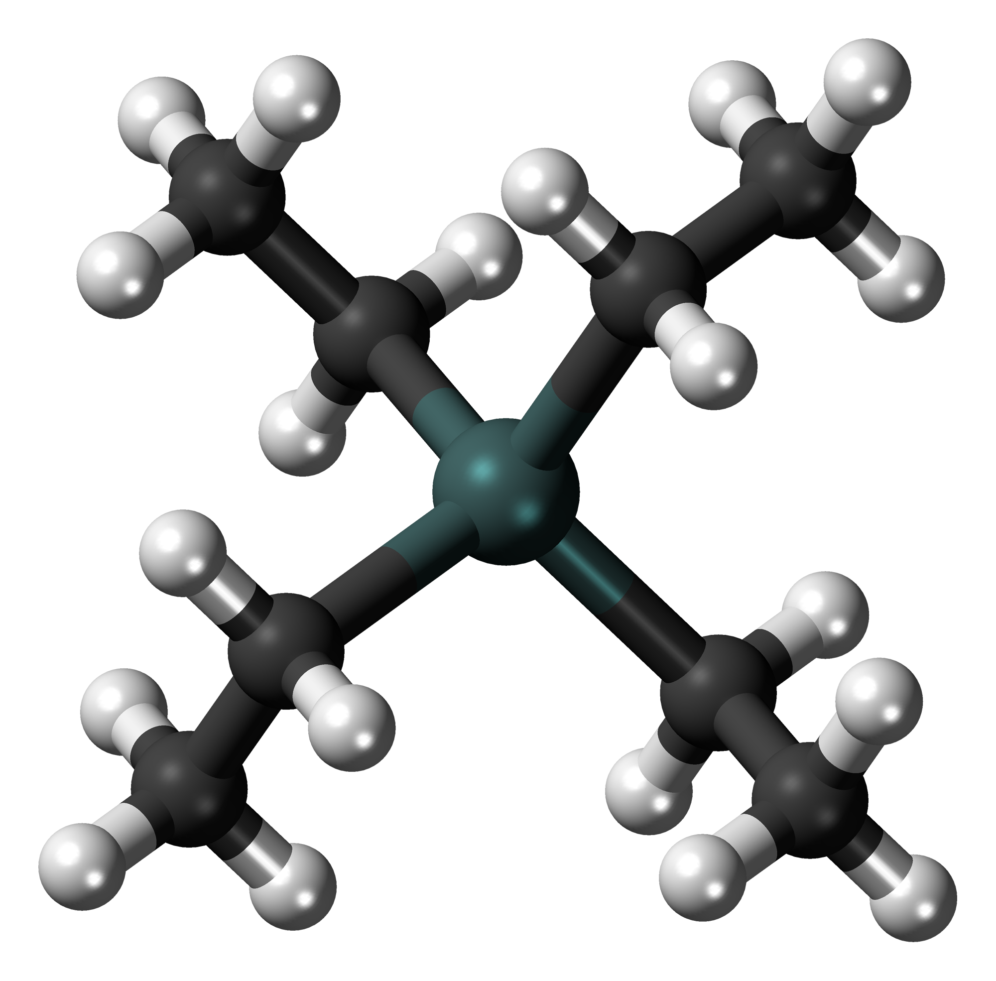 Ball-and-stick model of the tetraethyllead molecule, the antiknock agent agent added to leaded petrol. It was the single cause of atmospheric lead pollution in the 20th century. Colour code: Carbon, C: black Hydrogen, H: white Lead, Pb: blue-grey